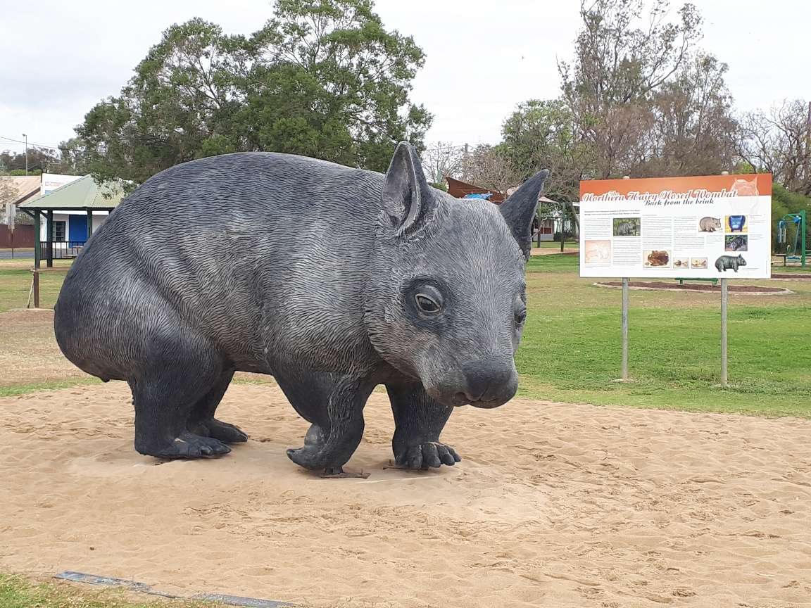 thallon qld